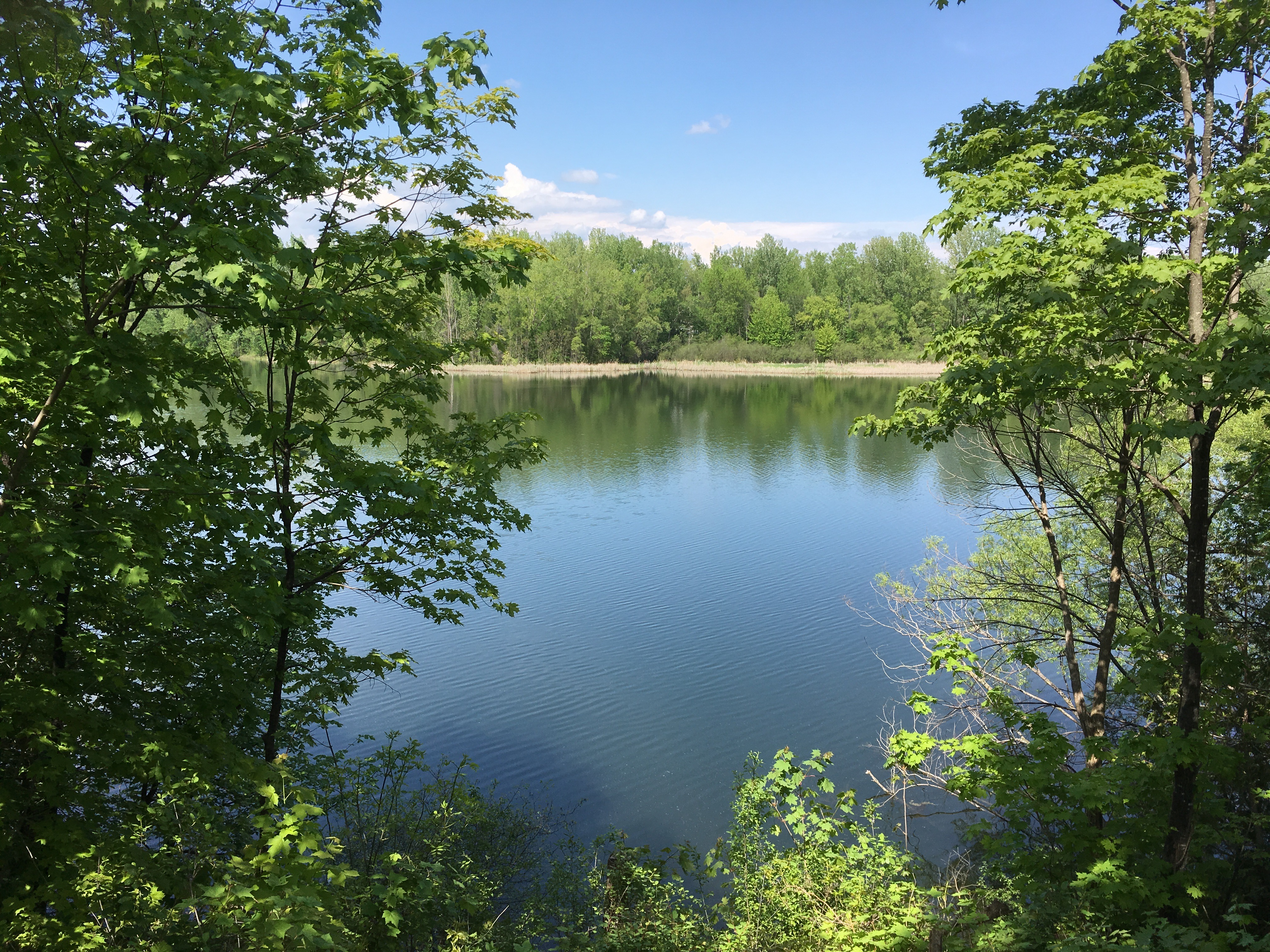 McKay Lake, photo taken from west end of footpath known as Dog Walk